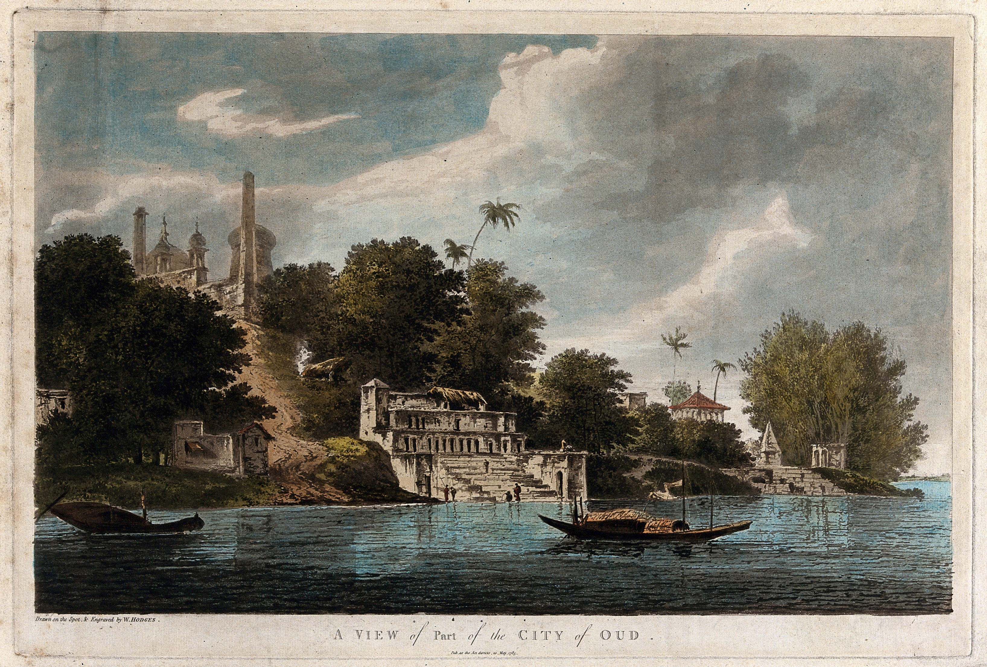 A View of Part of the City of Oudh.